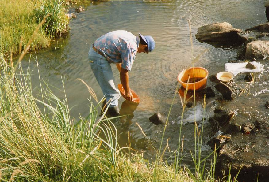 Prospector collecting a stream-sediment sample for gold-exploration. Photo taken by User:Geoz, Uruguay 1999.